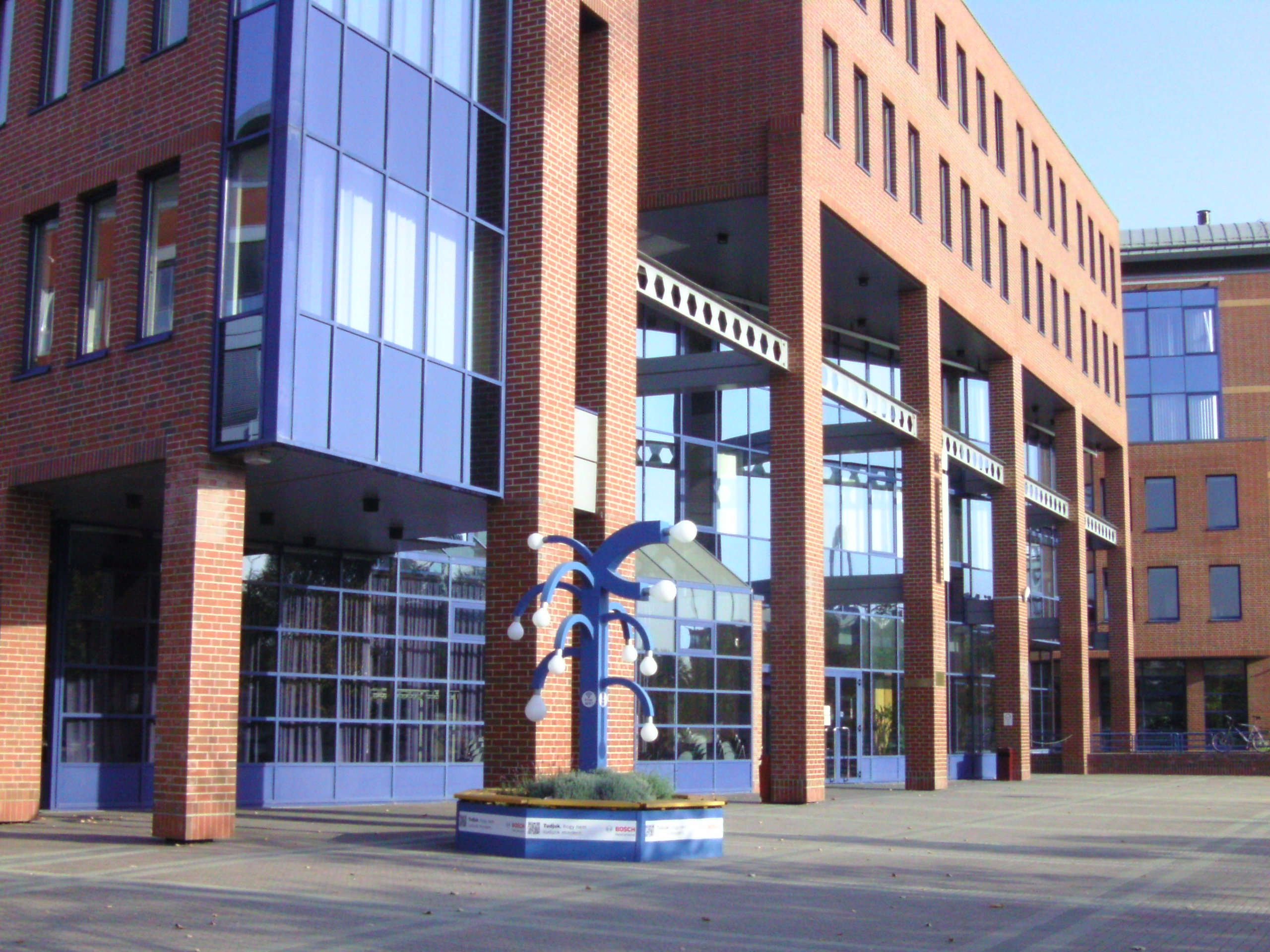 Budapest University of Technology and Economics.Information Technology Building - XI. Magyar tudósok körútja 2.